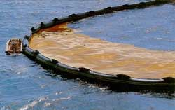 Oil spill containment boom, shown holding back oil